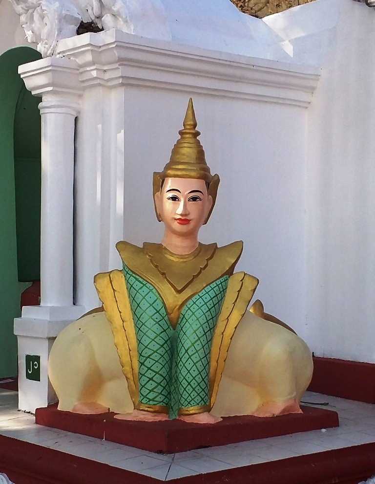 Manussiha